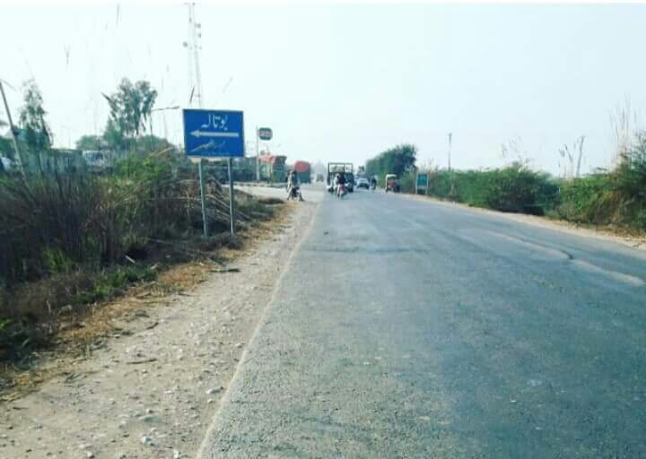 I also Uploaded this Photo on Botala Facebook Page & on website